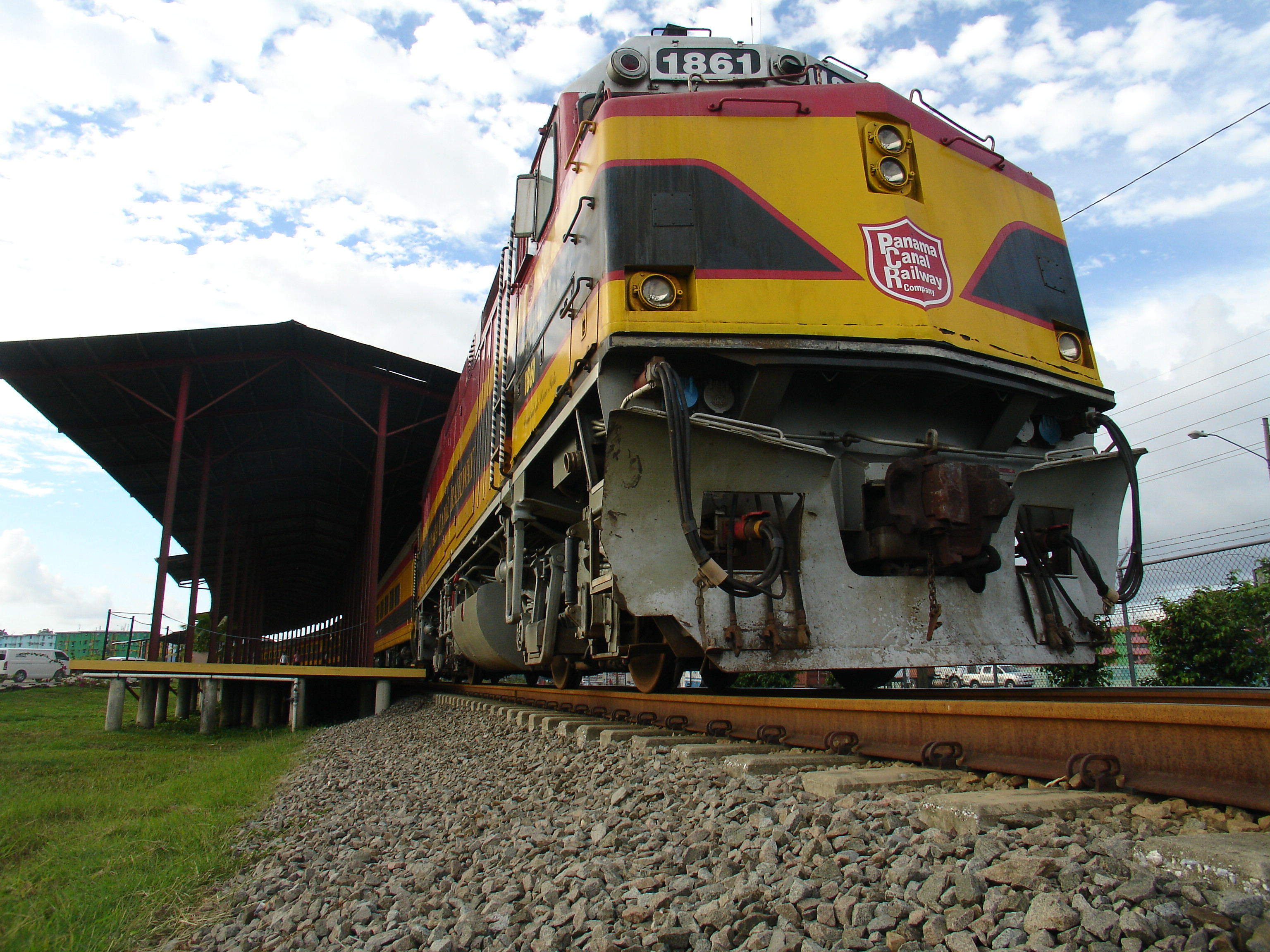 The Panama Canal Railway train is ready to depart from the Colon station